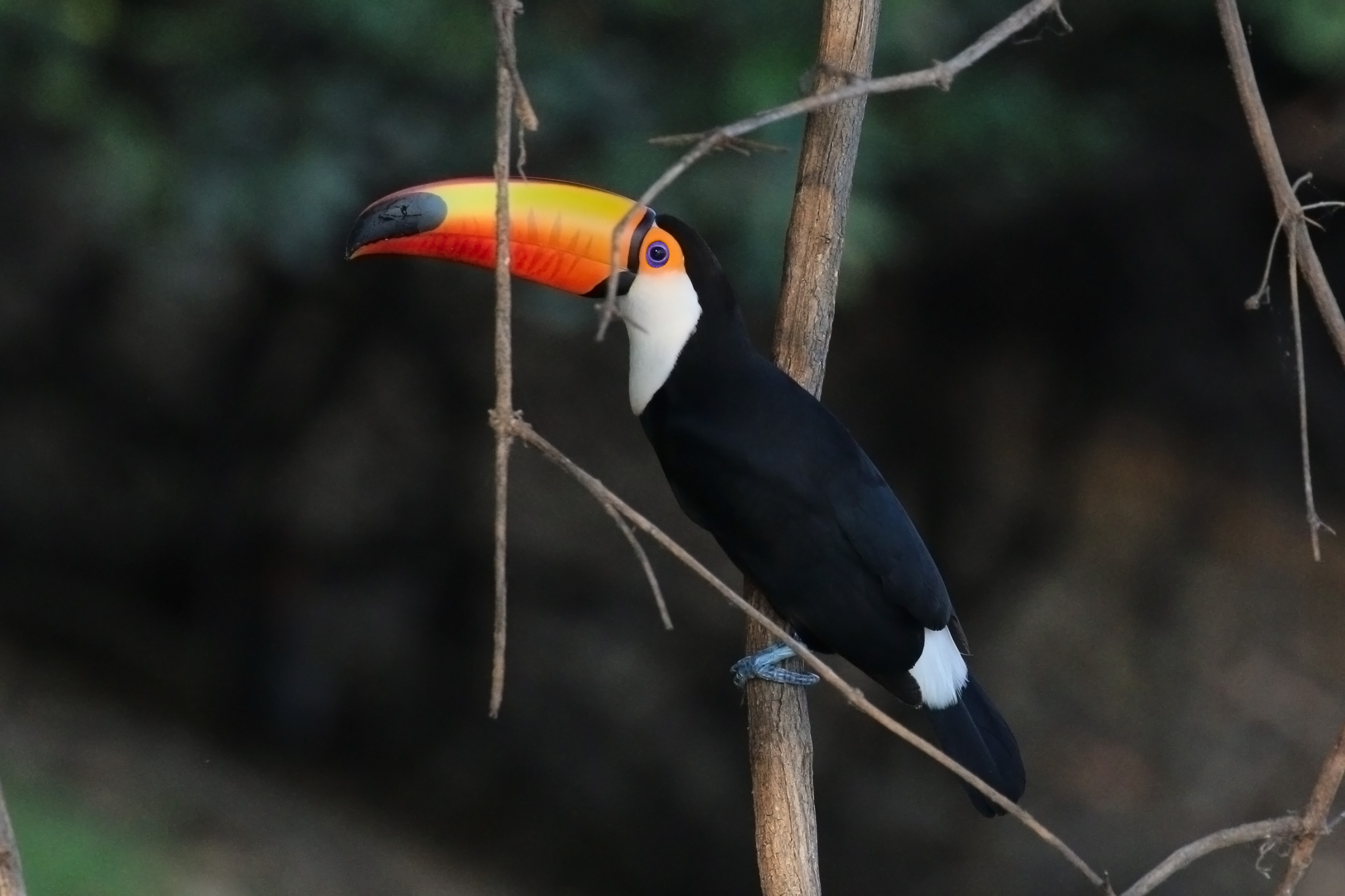 Toco toucan (Ramphastos toco), Rio Negro, the Pantanal, Brazil